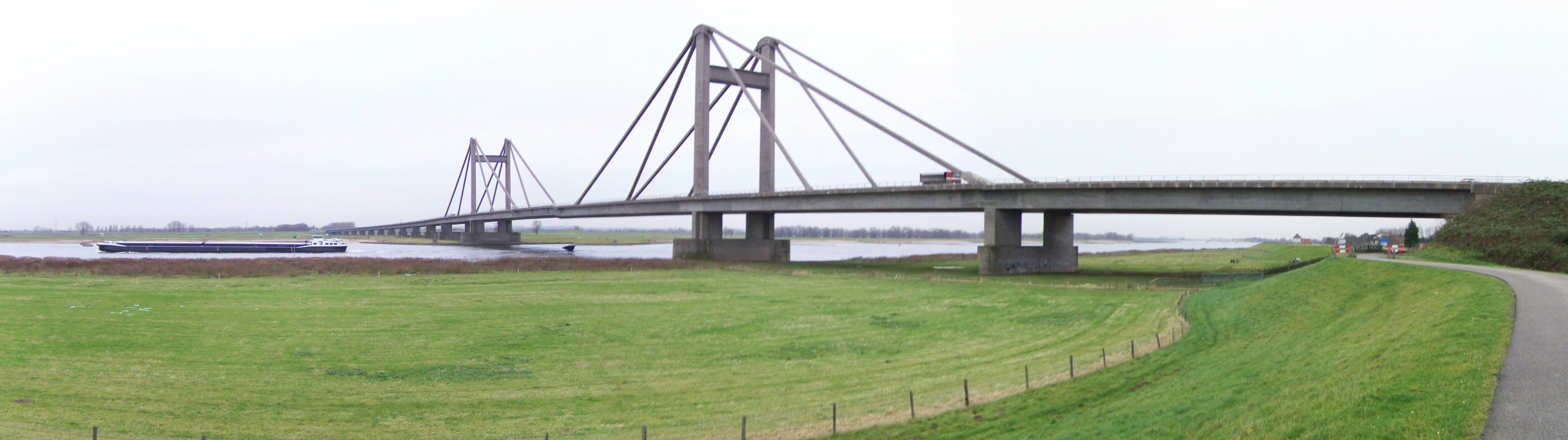 Panorama view of the Prince Willem-Alexander bridge between Echteld and Beneden Leeuwen, the Netherlands